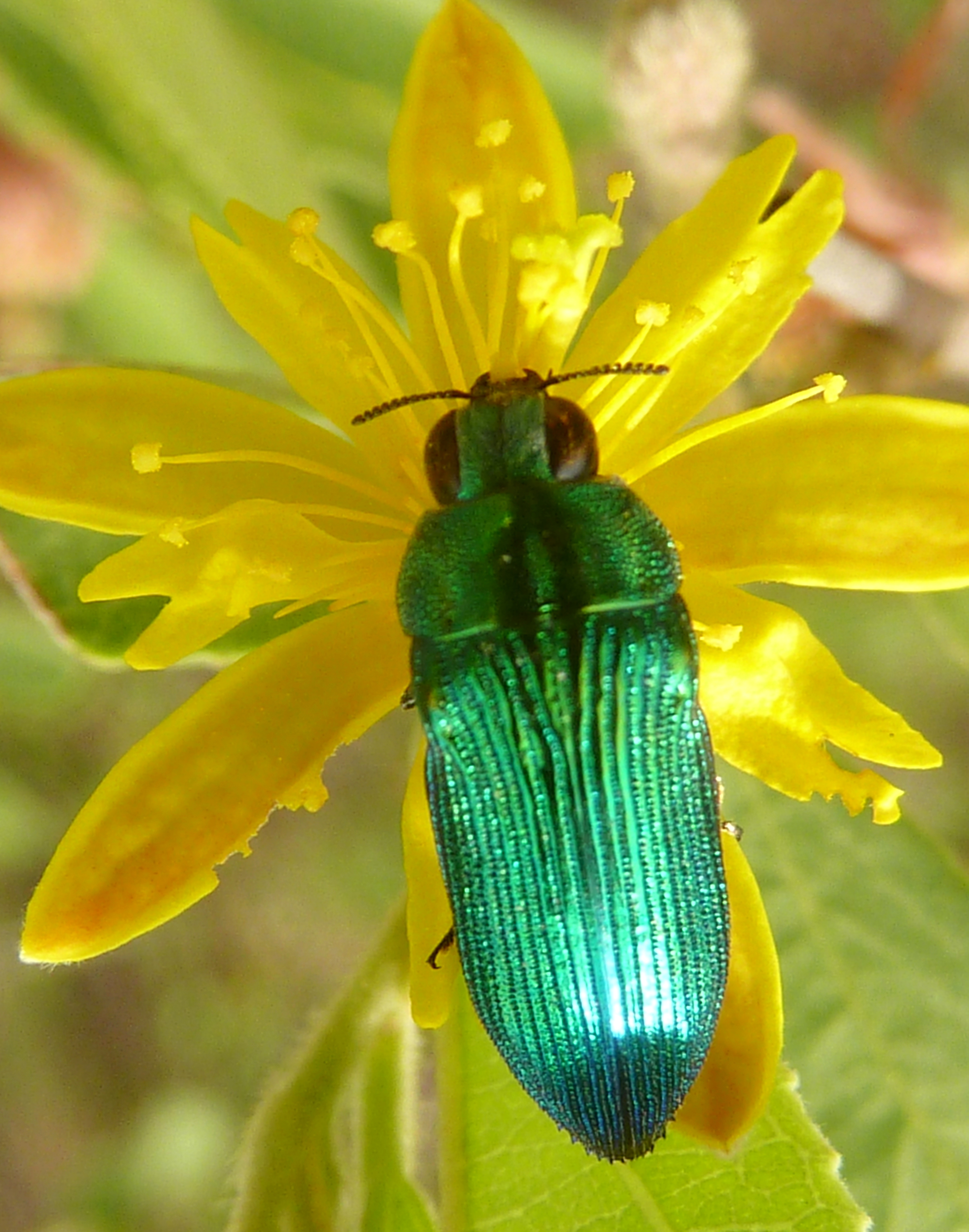 A female Glittering jewel beetle feeding on a flower of Grewia flava at Zoutpan near Pretoria, South Africa